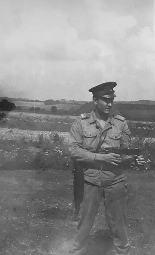 Border Protection Forces in Bliszczyce